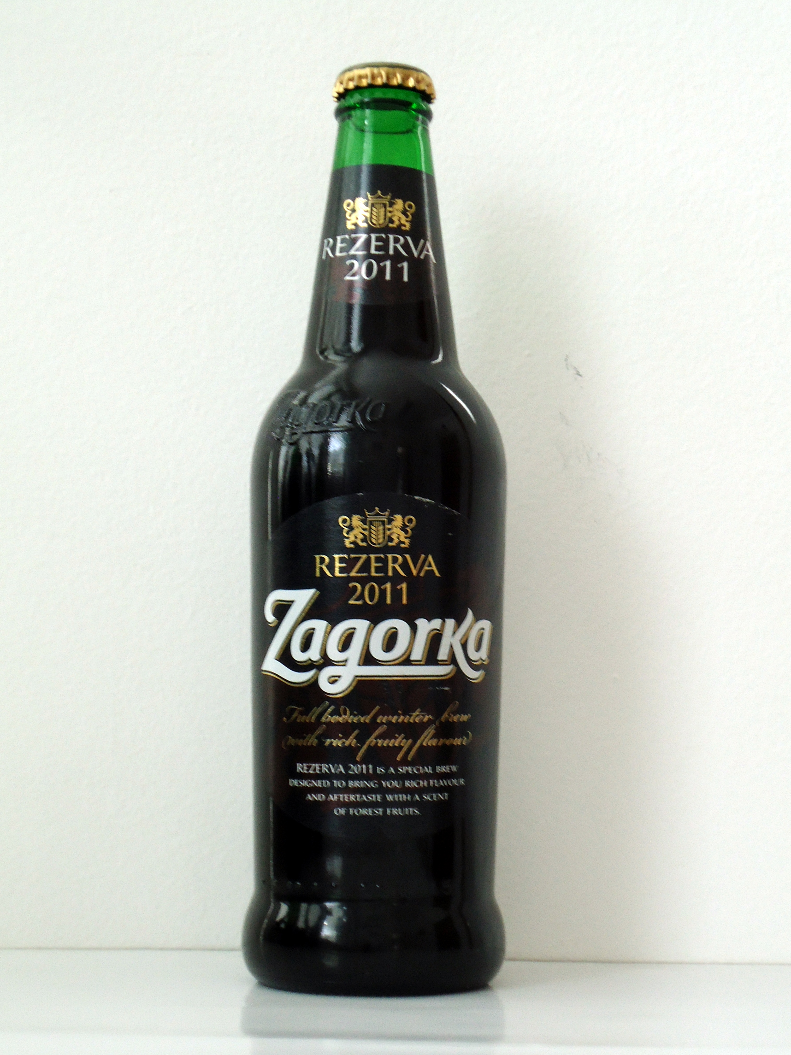 Zagorka Rezerva 2011 - Bulgaria